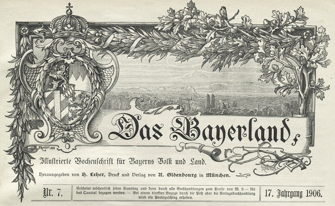 Kopf der Zeitschrift "Das Bayerland", 1906